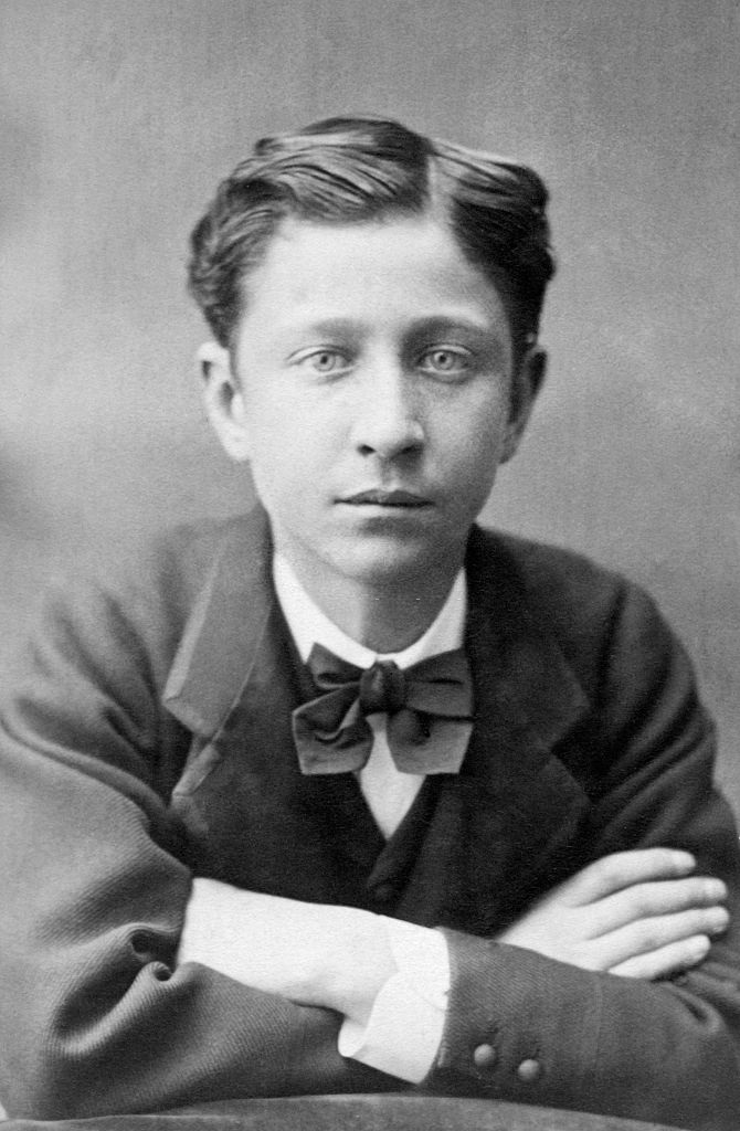 A carte-de-visite portrait of Napoleon Eugène Louis Bonaparte, The Prince Imperial (1856-1879), only son of Napoléon III.